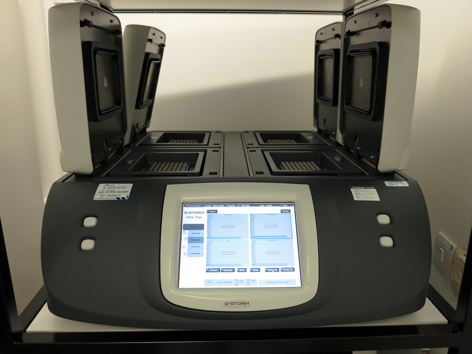 G-STORM GS4 thermal cycler